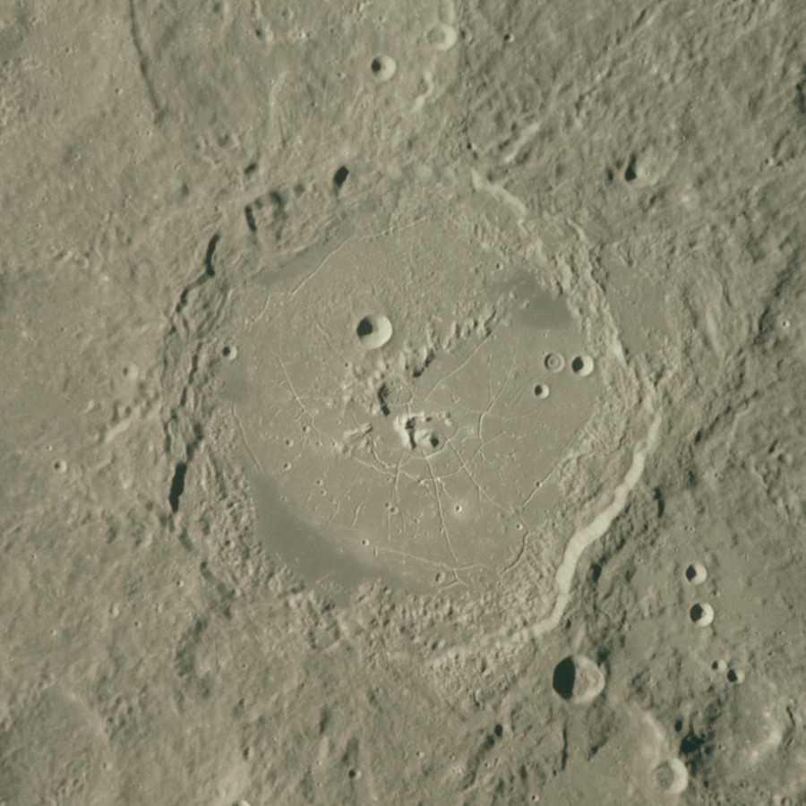 Humboldt crater, on the moon. Rotated so that north is at top and cropped, and brightness and contrast adjusted slightly.